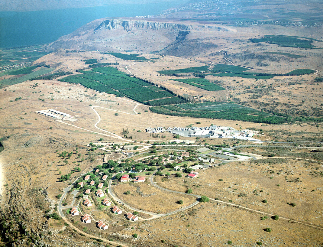 An arial phto of Kibbutz Ravid